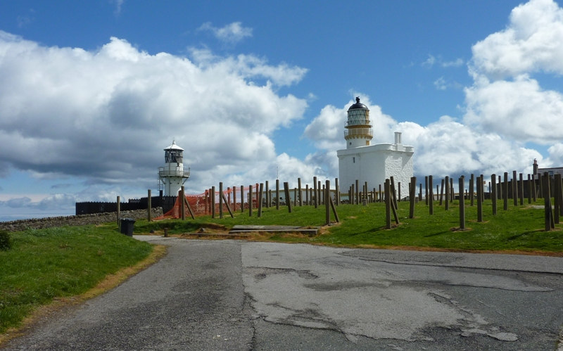 Kinnaird Head Castle Lighthouse, Fraserburgh, Aberdeenshire, Scotland. The new lighthouse and the donjon-lighthouse.